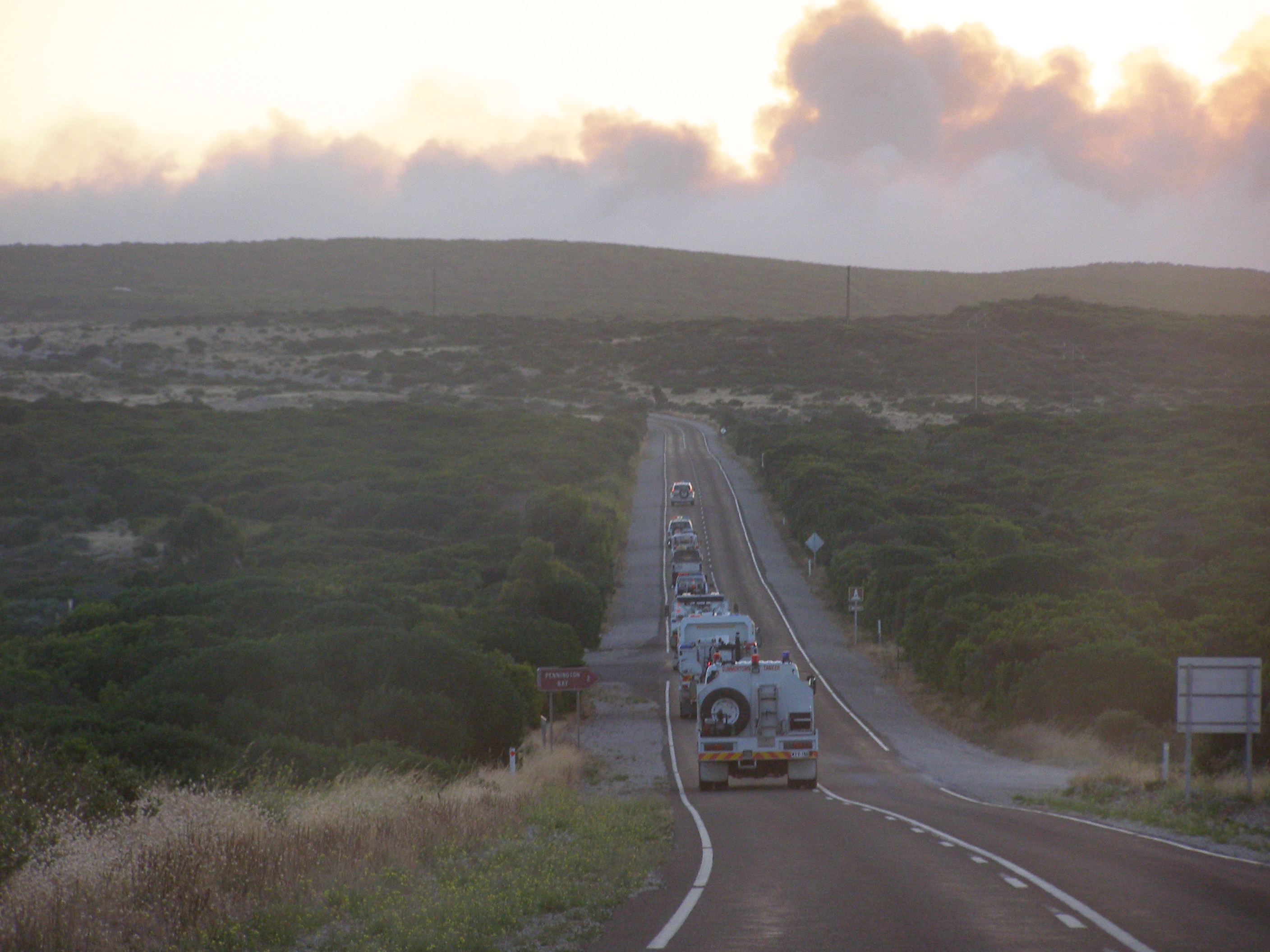 author, user large CFS strike team